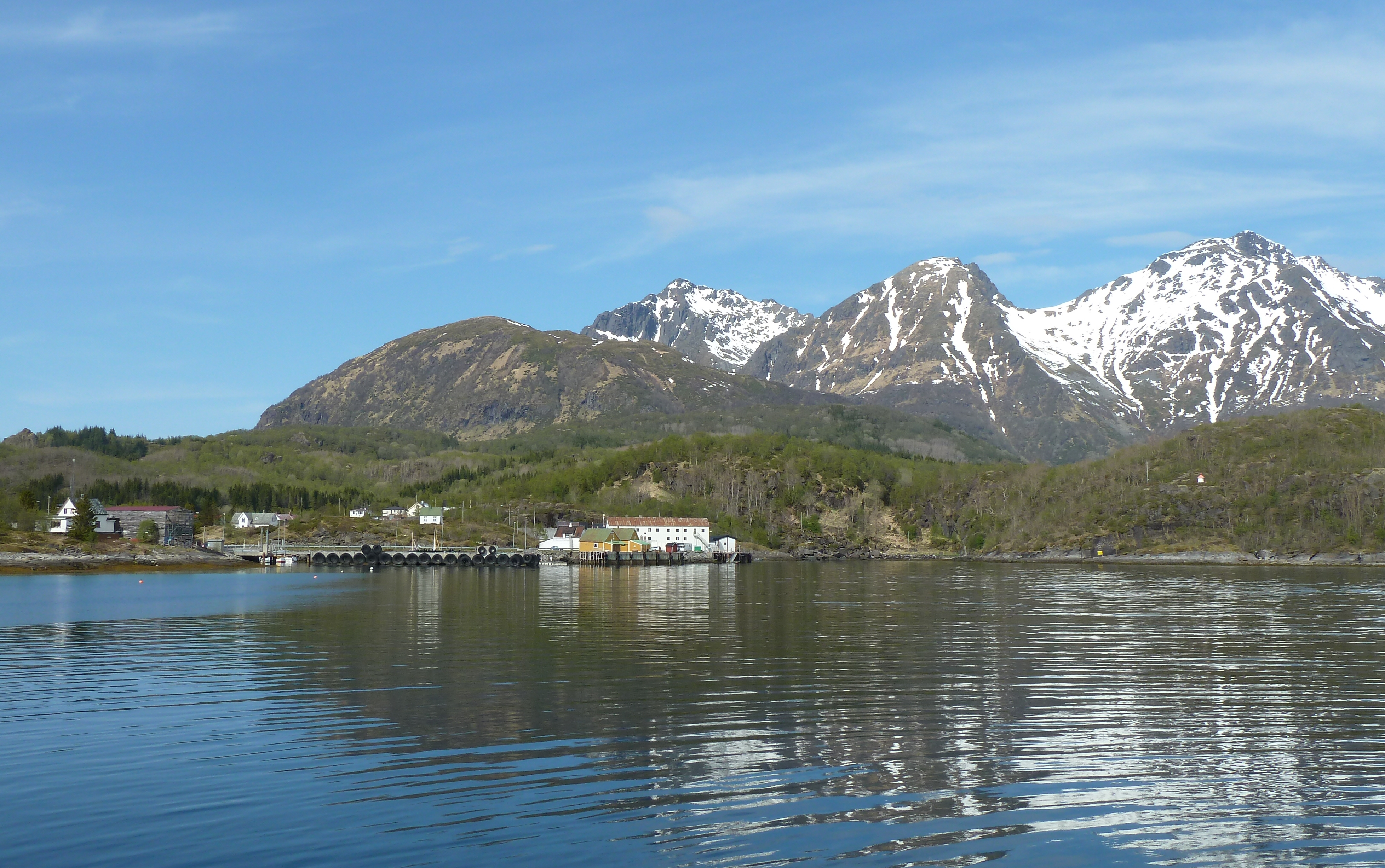 Skutvik Harbour and ferry port and the mountains Salen, Dalsfjellet, Sørtinden and Vågsfjellet. Norsk (bokmål): Skutvik havn. Fjellene i bakgrunnen: Salen, Dalsfjellet, Sørtinden og Vågsfjellet.